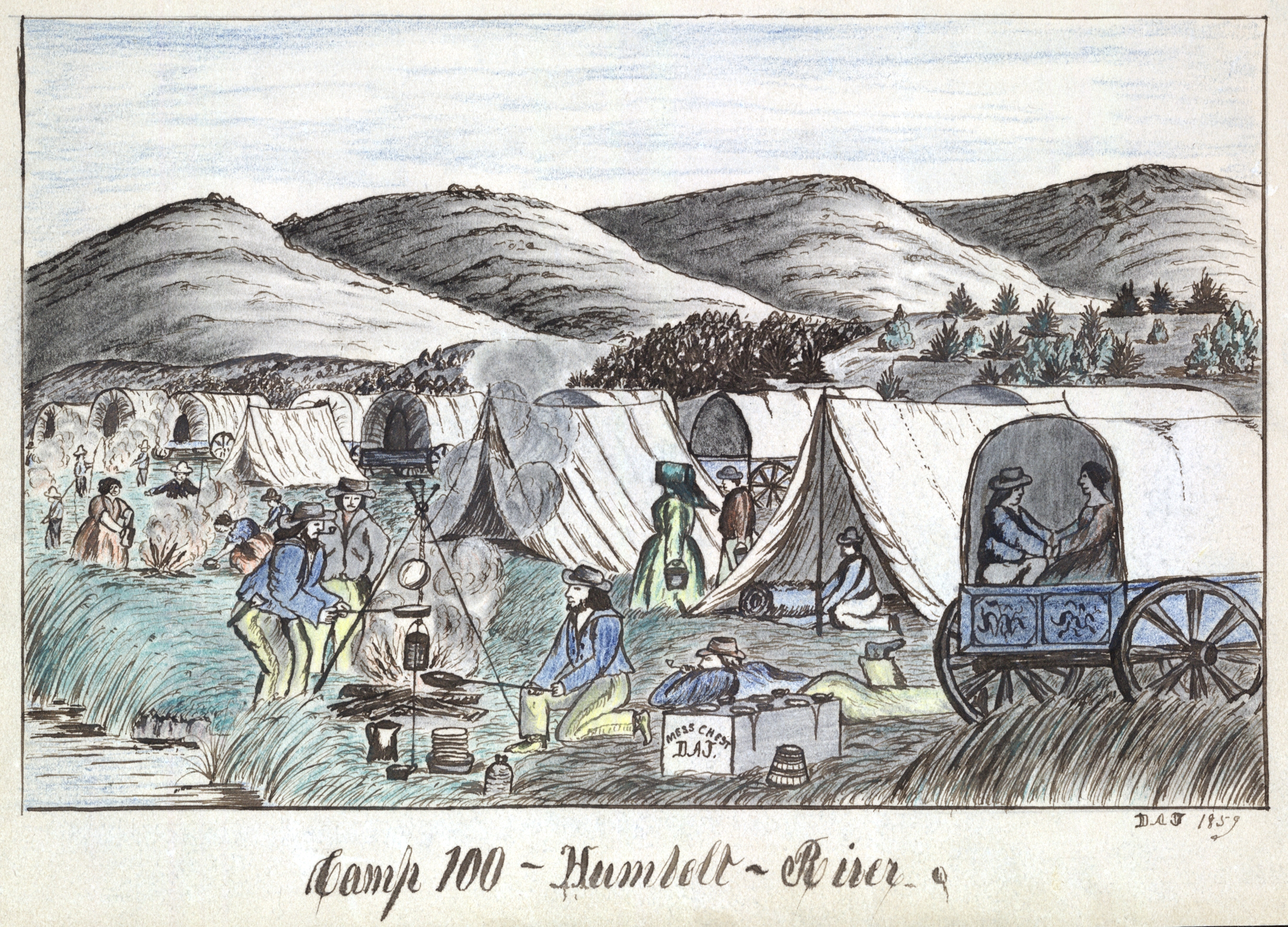 "Drawing shows several tents and covered wagons encamped on the banks of the Humboldt River in western Nevada. Both women and men prepare food over open fires, haul water, and prepare bedding. In the foreground, inside a covered wagon, a couple courts. Jenks and his party reached here on Friday, July 22, 1859.", "1 drawing on paper : graphite, ink, crayon and watercolor ; 18.2 x 25.4 cm. (sheet)."